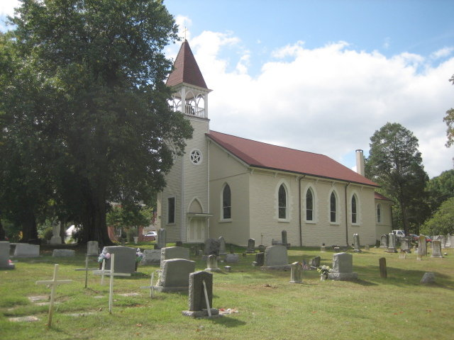 Sacred Heart Church in October of 2007